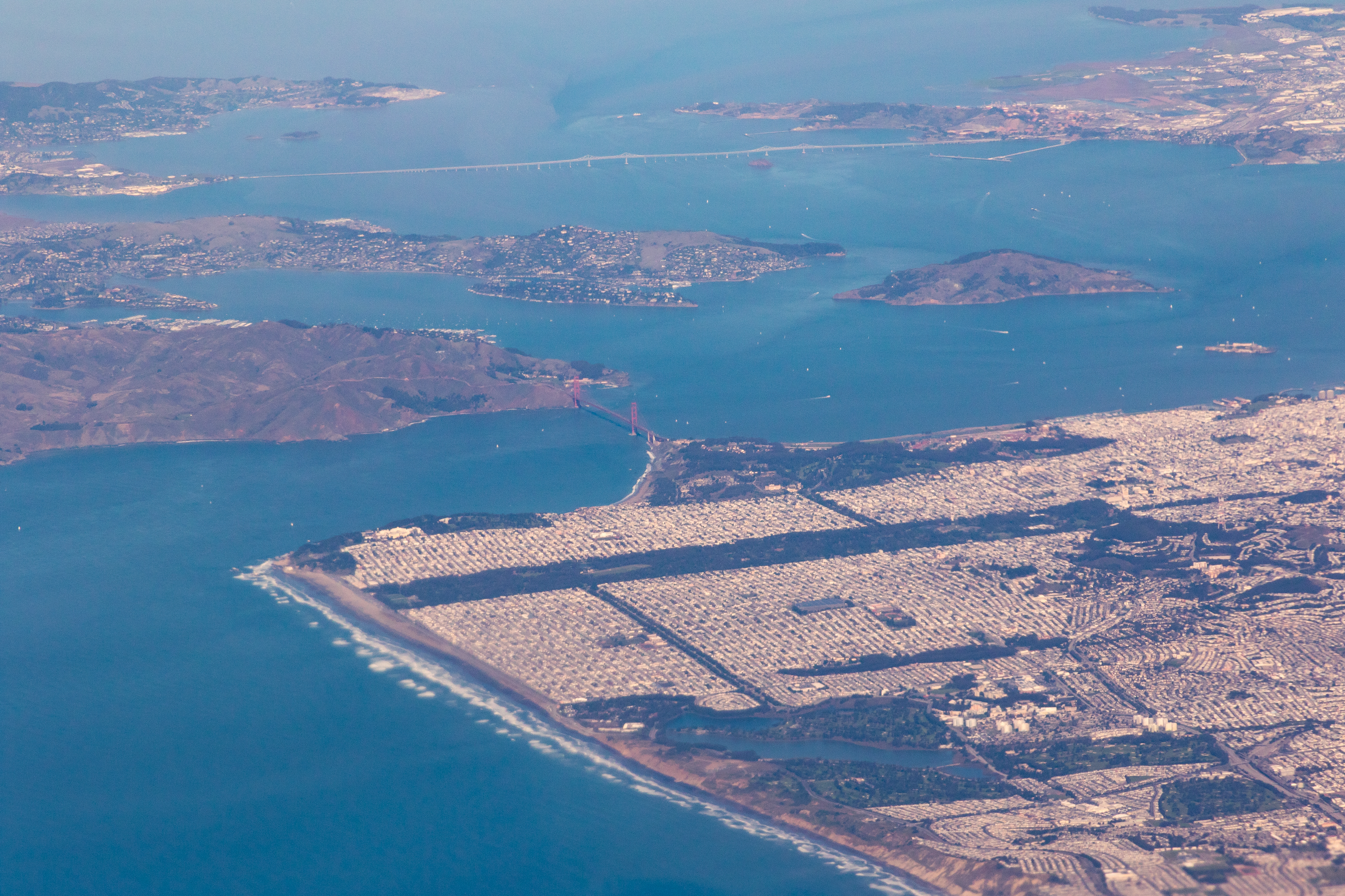 San Francisco, the Golden Gate Bridge, and the Marin Headlands, from a commercial airliner in 2018.